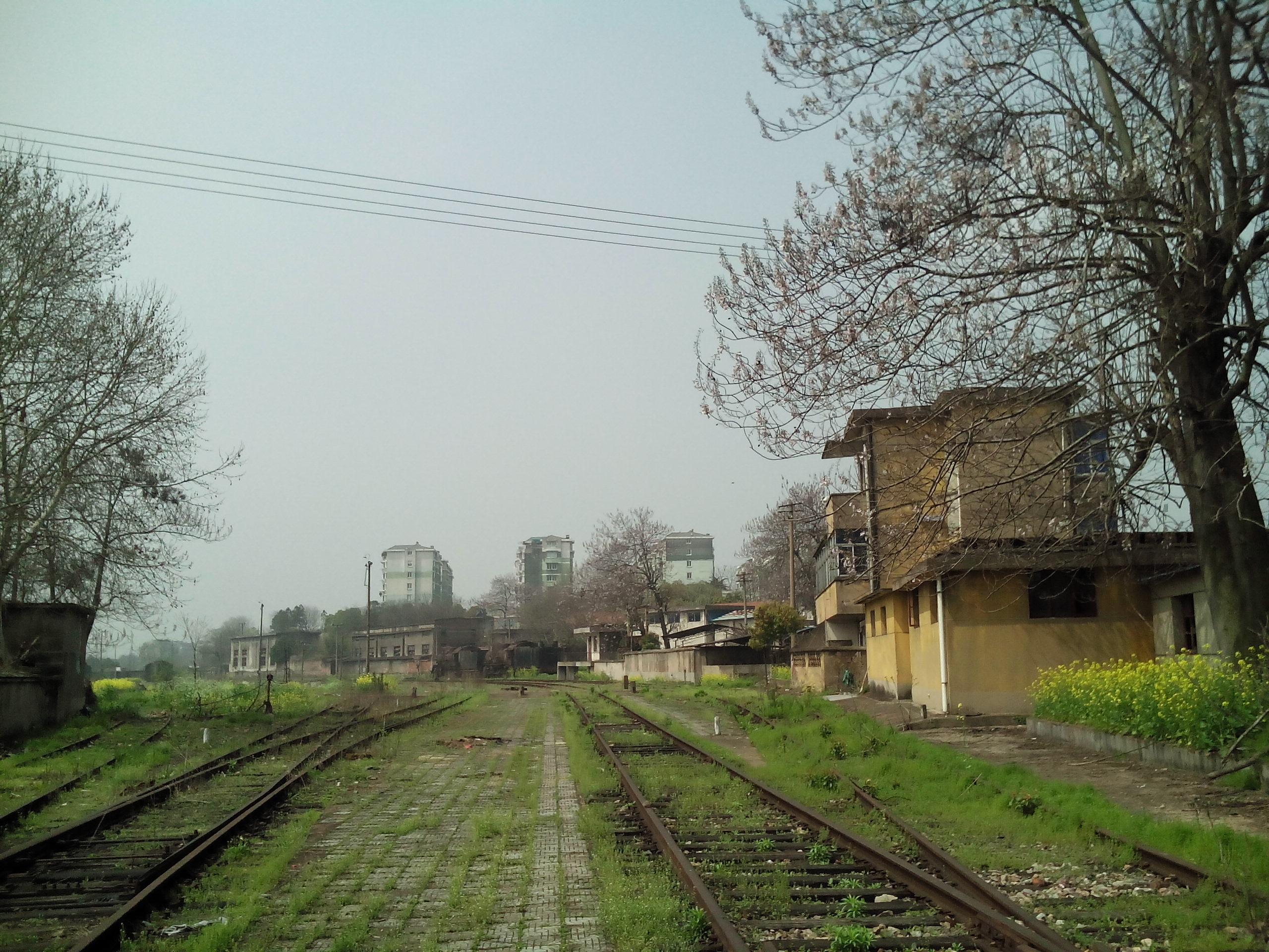 201603 Site of the former Jinhua Locomotive Depot, it is demolished now